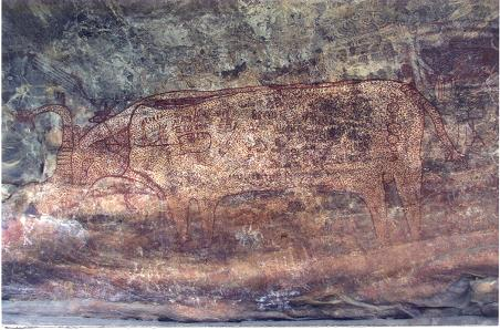 Photo of Bhimbetka Rock paintings by LR Burdak